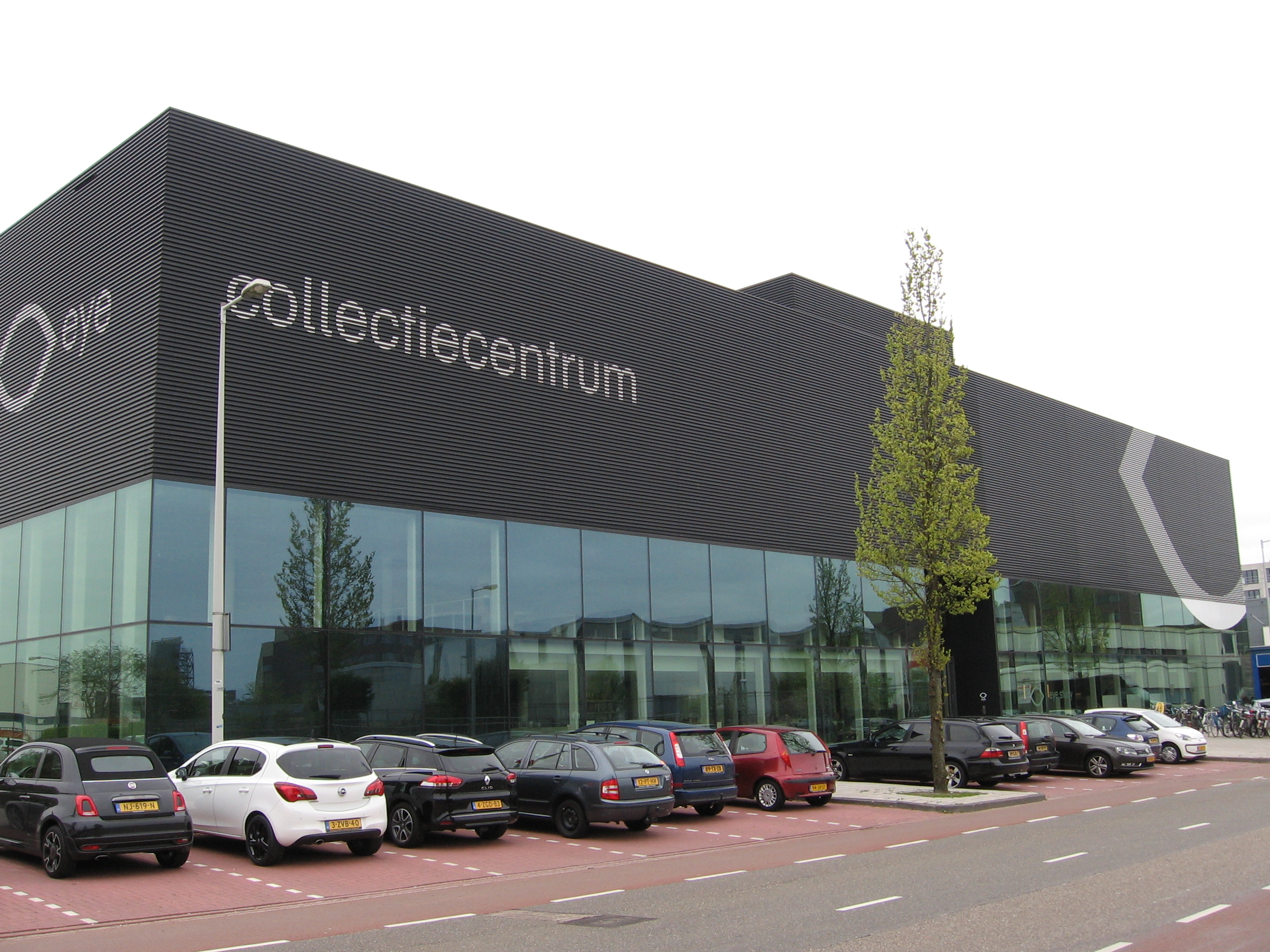 Collection building of EYE Film Institute Netherlands, Amsterdam. Front.